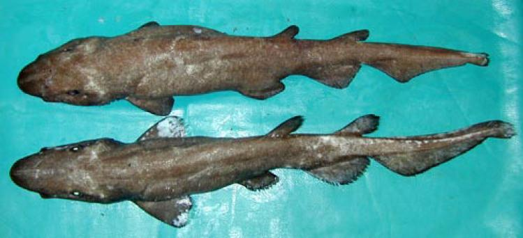 Deepwater catshark (Apristurus profundorum) (above) and ghost catshark (Apristurus manis) (below) caught on Bear Seamount at 1110-1284 m